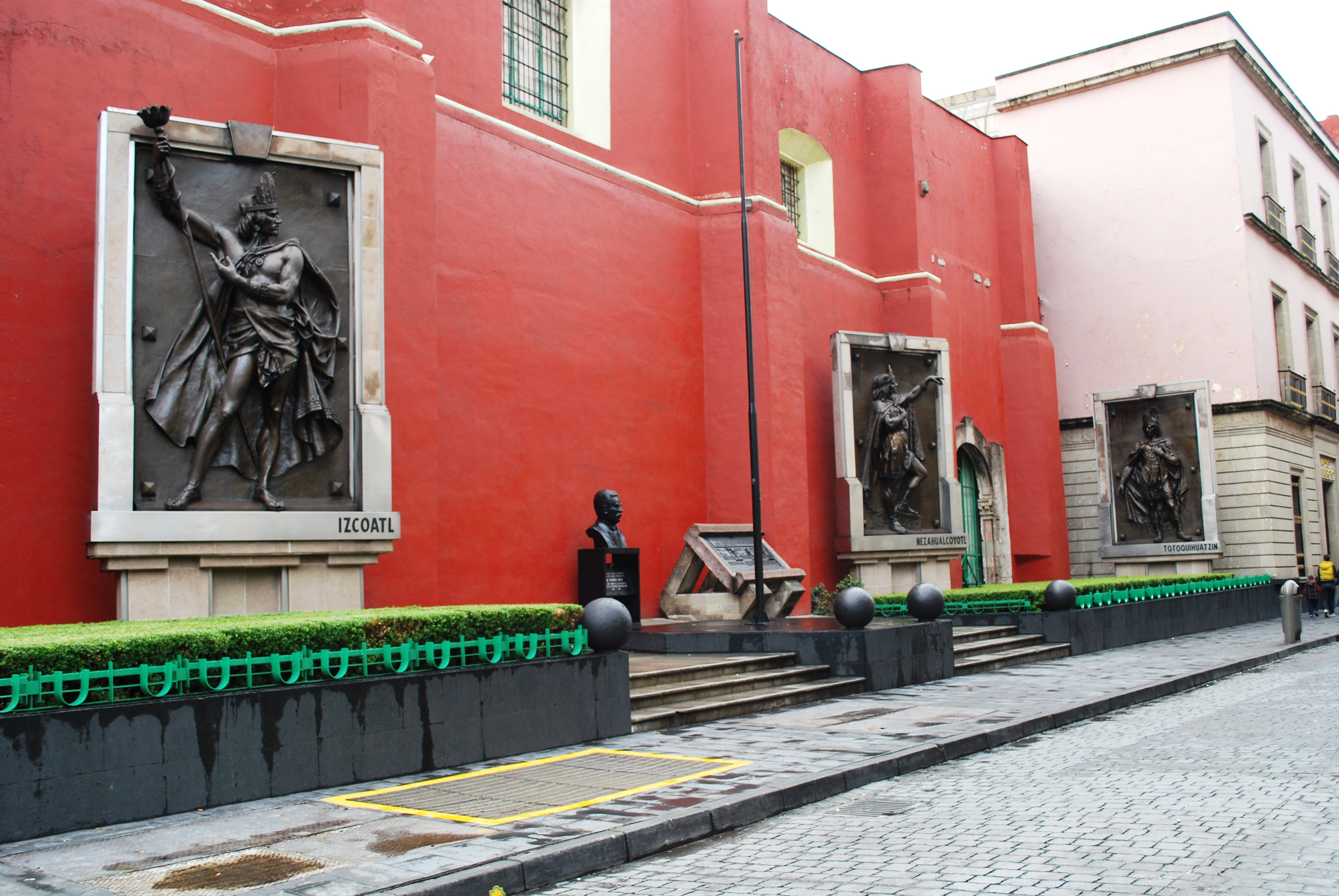 Garden of the Triple Alliance located in the historical center of Mexico City (Filomeno Mata street).